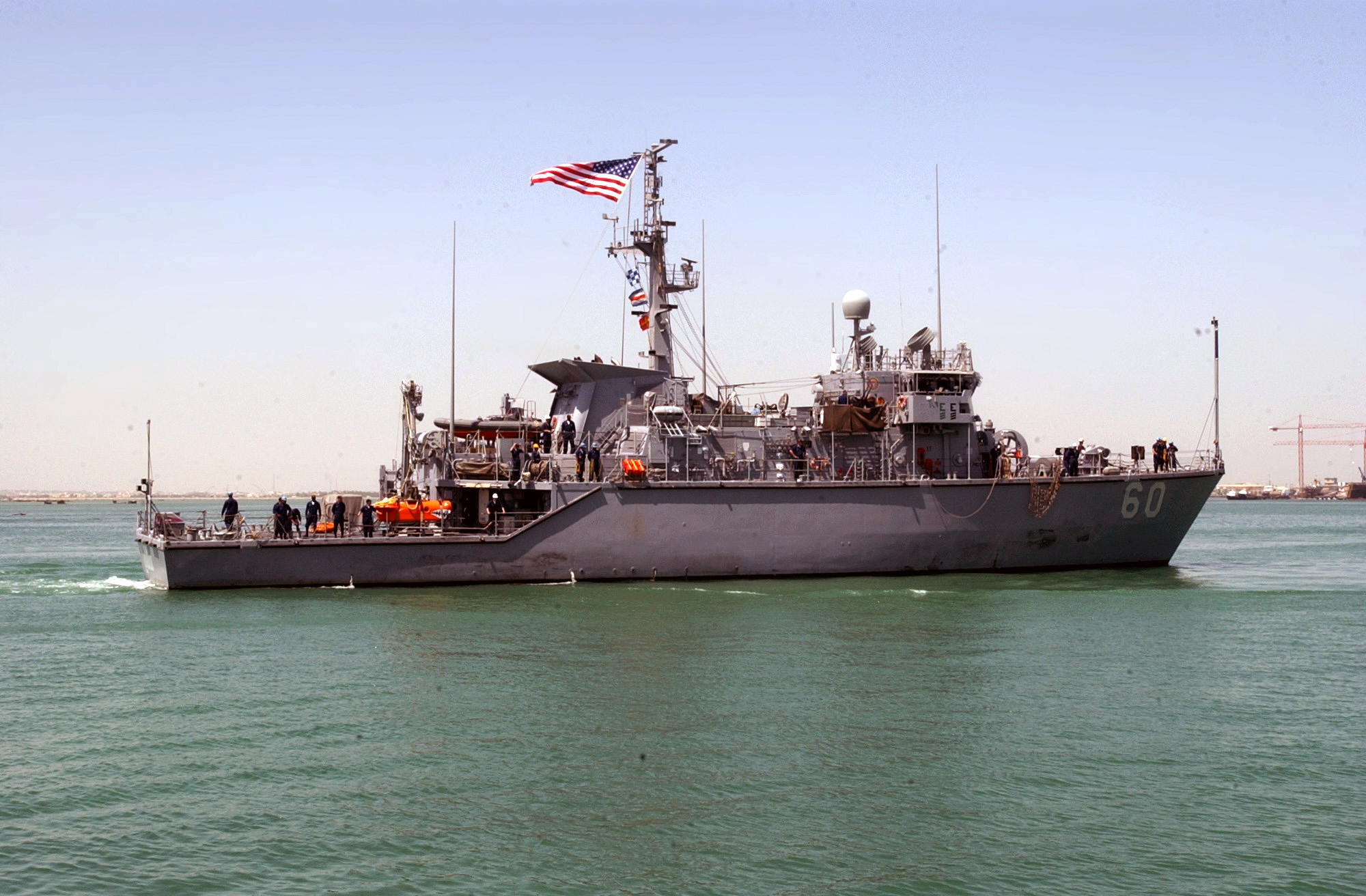 Naval Support Activity, Bahrain (Apr. 24, 2003) — The mine warfare ship, USS Cardinal (MHC-60) returns to her homeport at Naval Support Activity Bahrain after 45 days at sea conducting mine clearing operations in the Northern Arabian Gulf in support of Operation Iraqi Freedom. Operation Iraqi Freedom is the multi-national coalition effort to liberate the Iraqi people, eliminate Iraq's weapons of mass destruction and end the regime of Saddam Hussein.